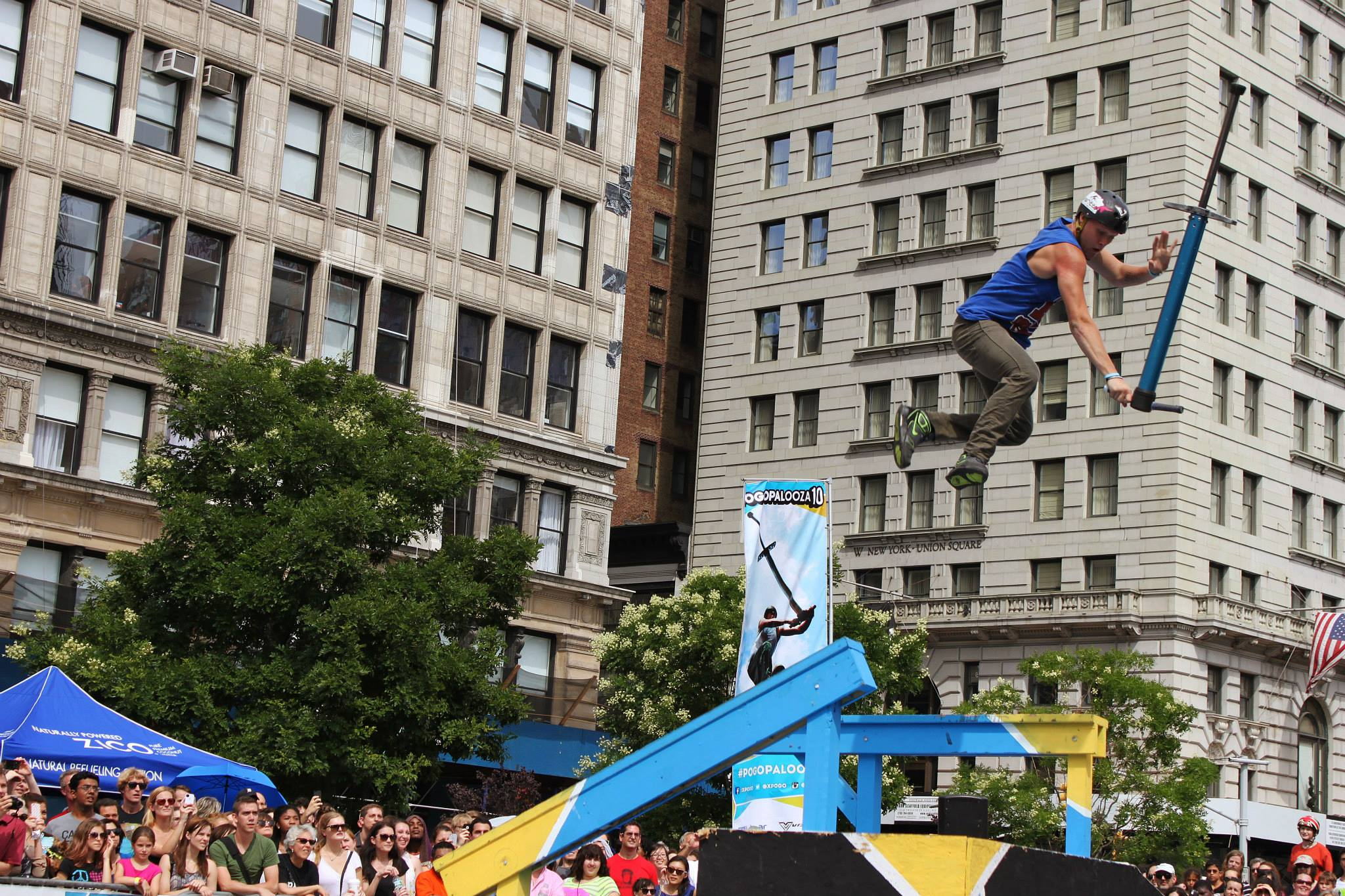 This is a picture of Biff Hutchison Stickflipping at Pogopalooza 10